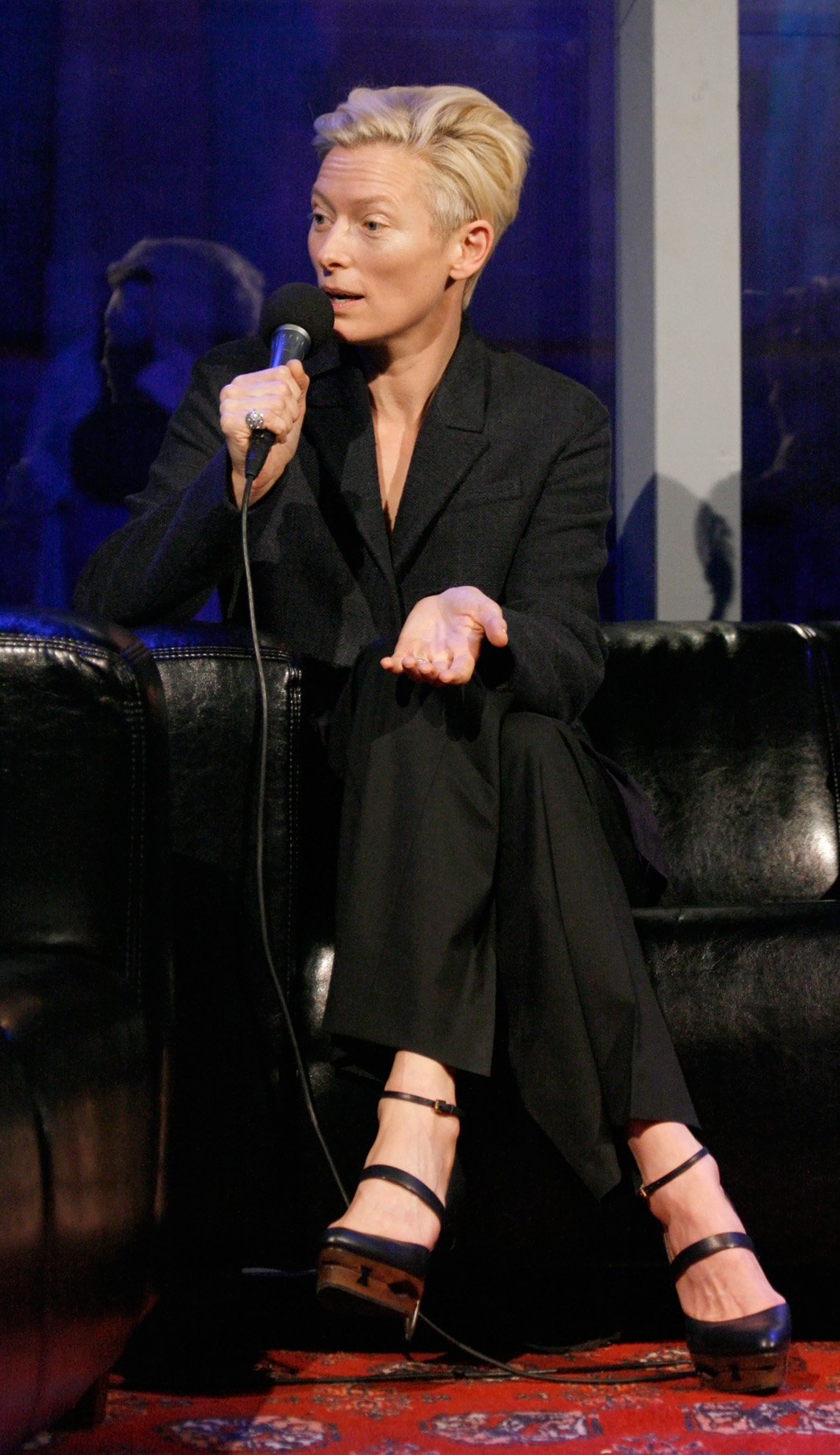 Tilda Swinton talking with the audience during the Vienna International Film Festival 2009.